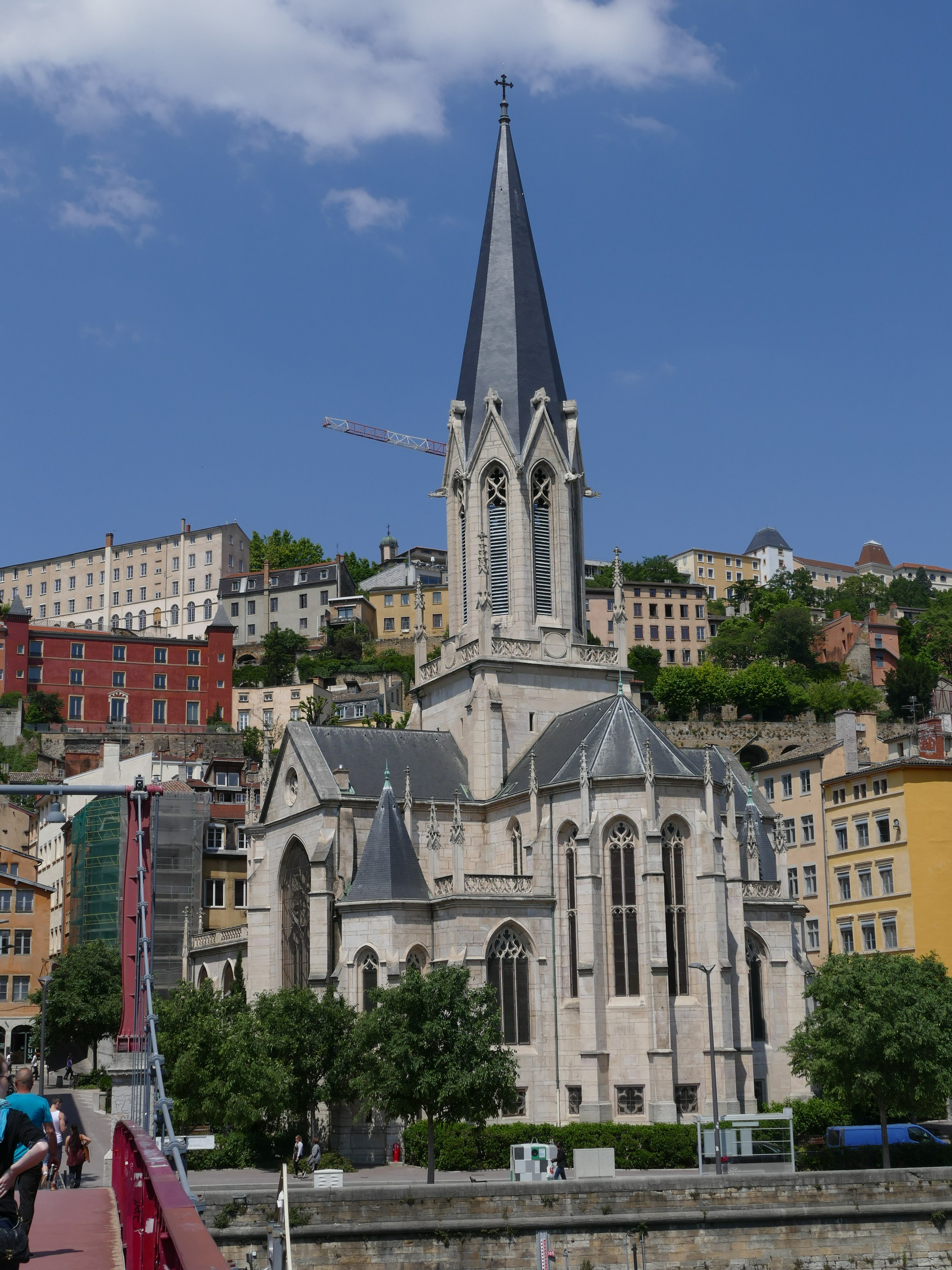 Saint-Georges' church in Lyon (Rhône, Rhône-Alpes, France).